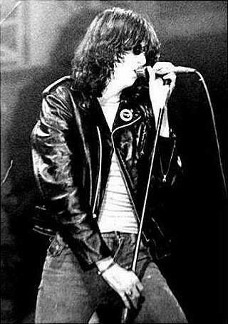 Joey Ramone, vocalist and songwriter for the Ramones.